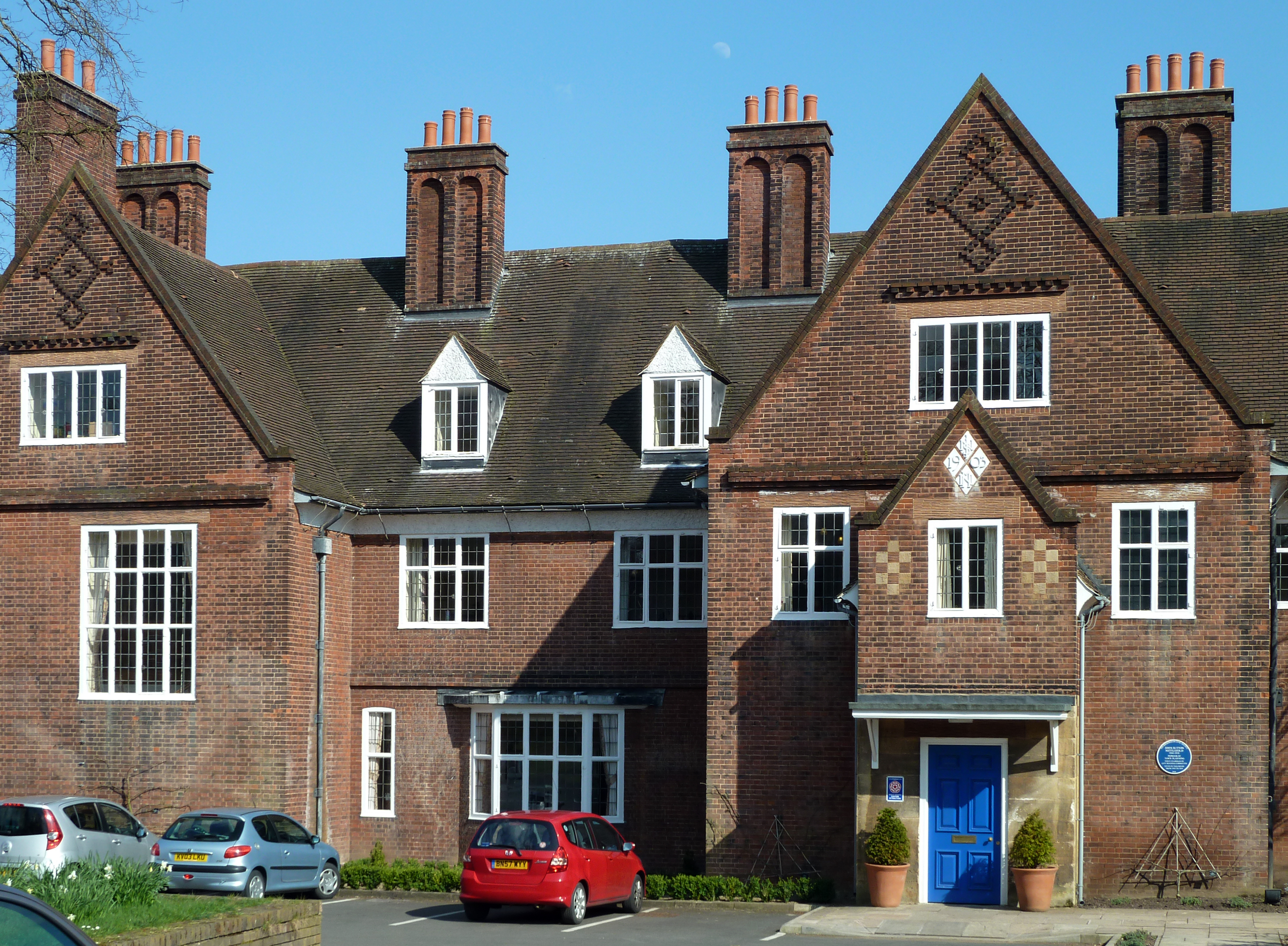 Winterbourne House in Edgbaston Birmingham, designed by Joseph Lancaster Ball for John Nettlefold and built in 1903